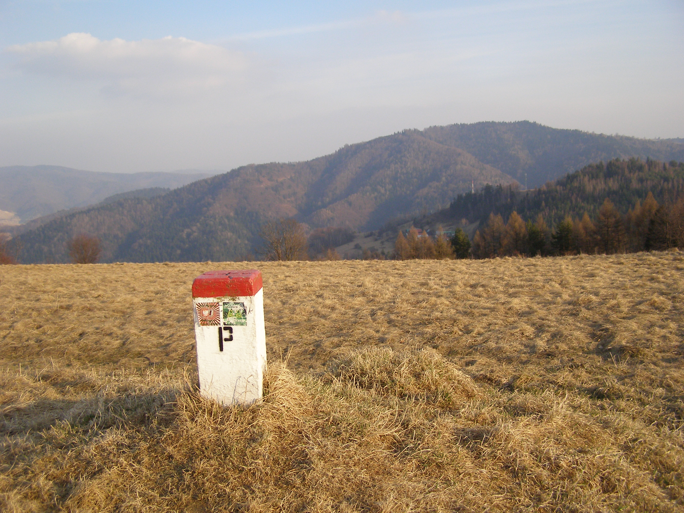 Polish-Slovak border in the Beskid Sądecki mountain range (near the town of Piwniczna-Zdrój).